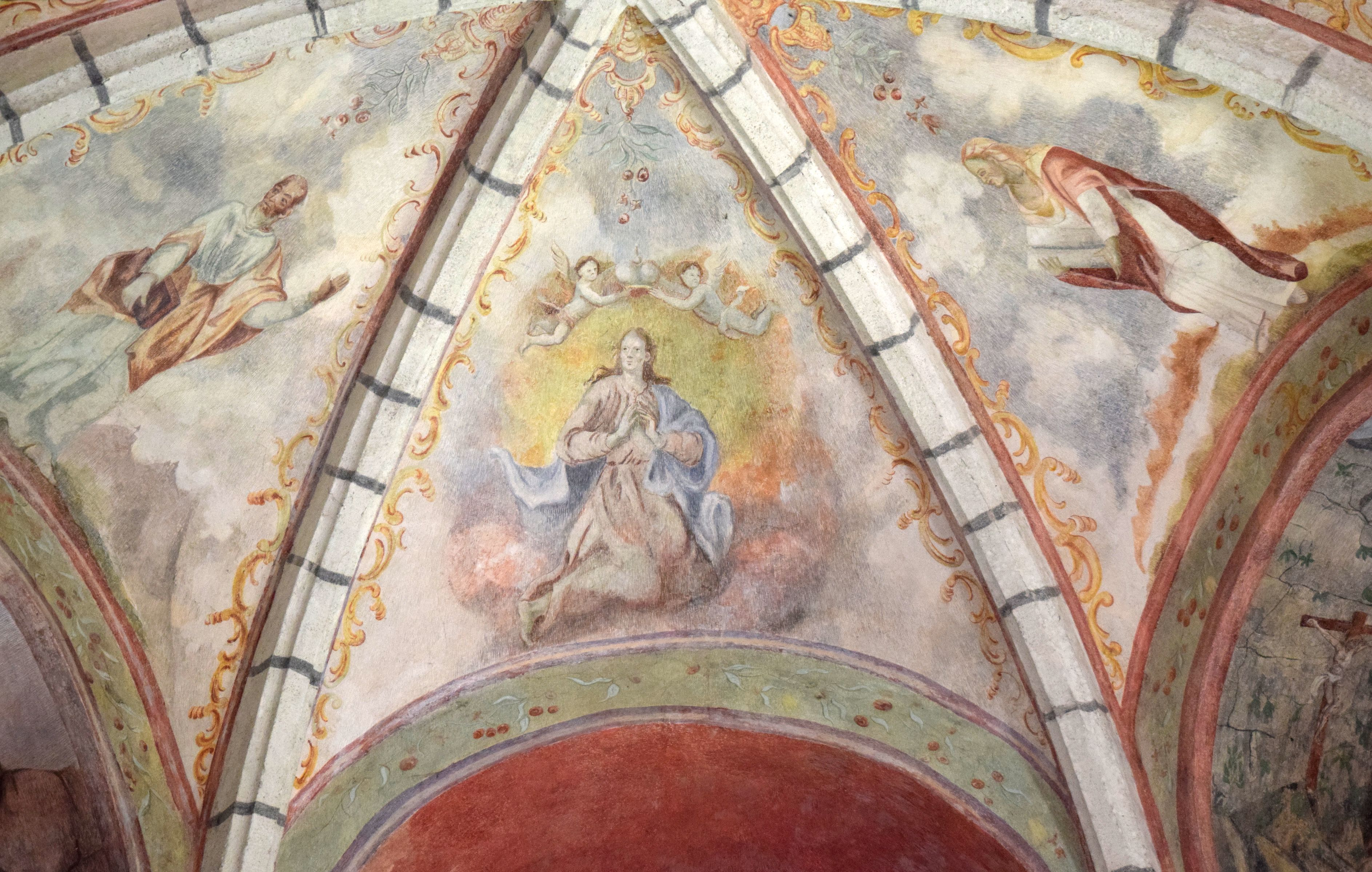 Kiszombor round church